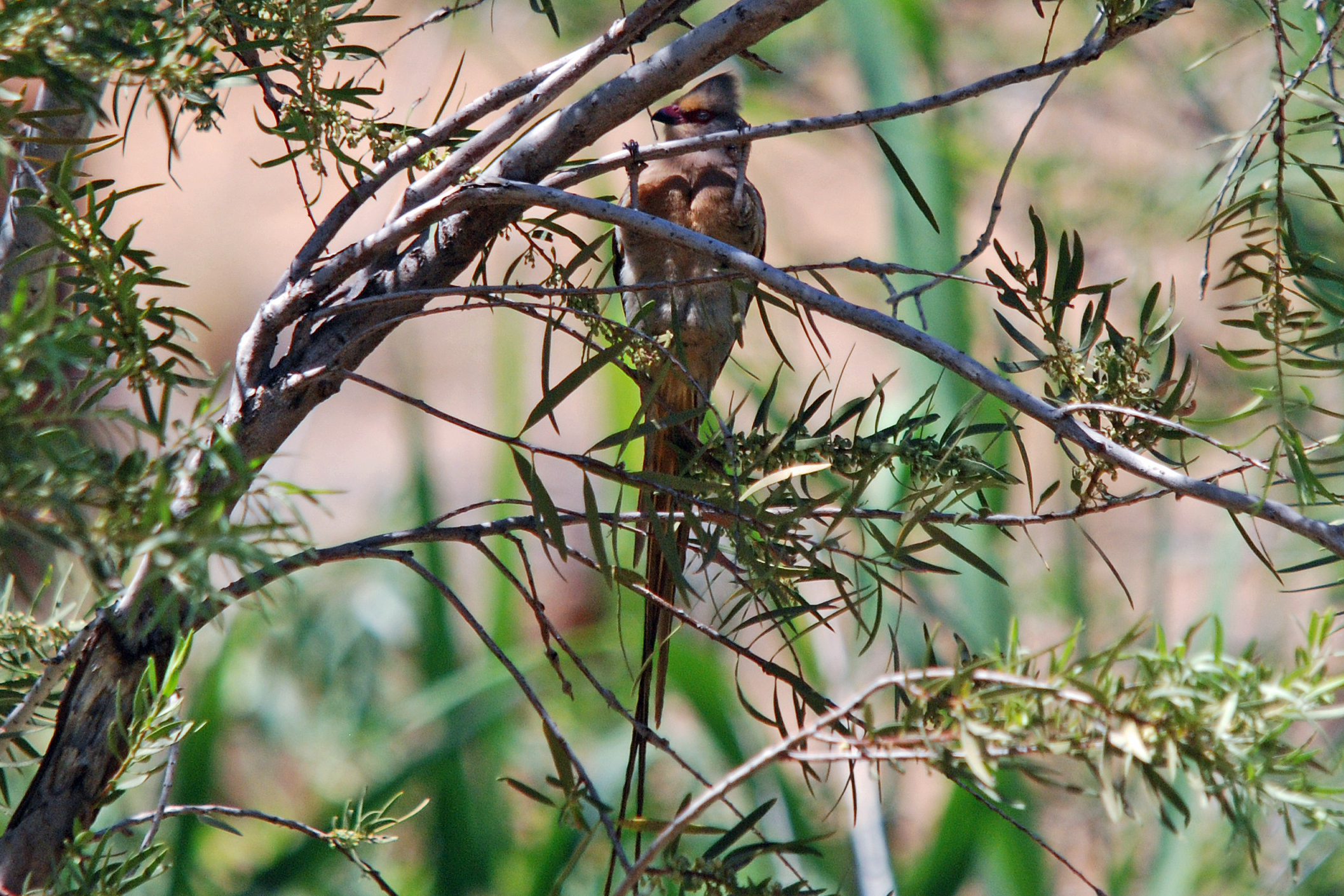 Red-faced Mousebird (Urocolius indicus) in tree, Upington or Capetown, South Africa.